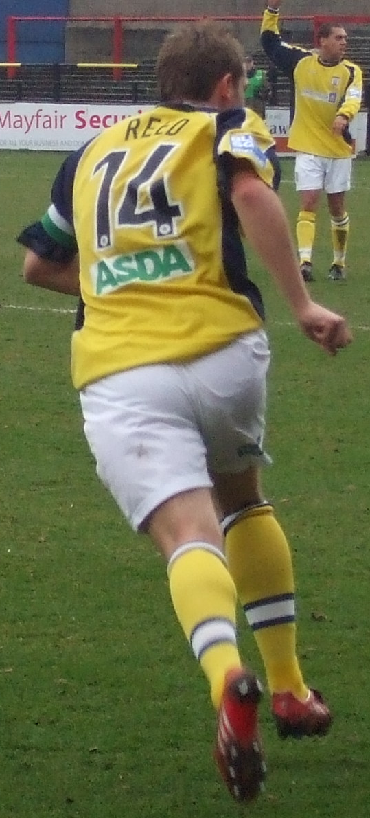 Steve Reed